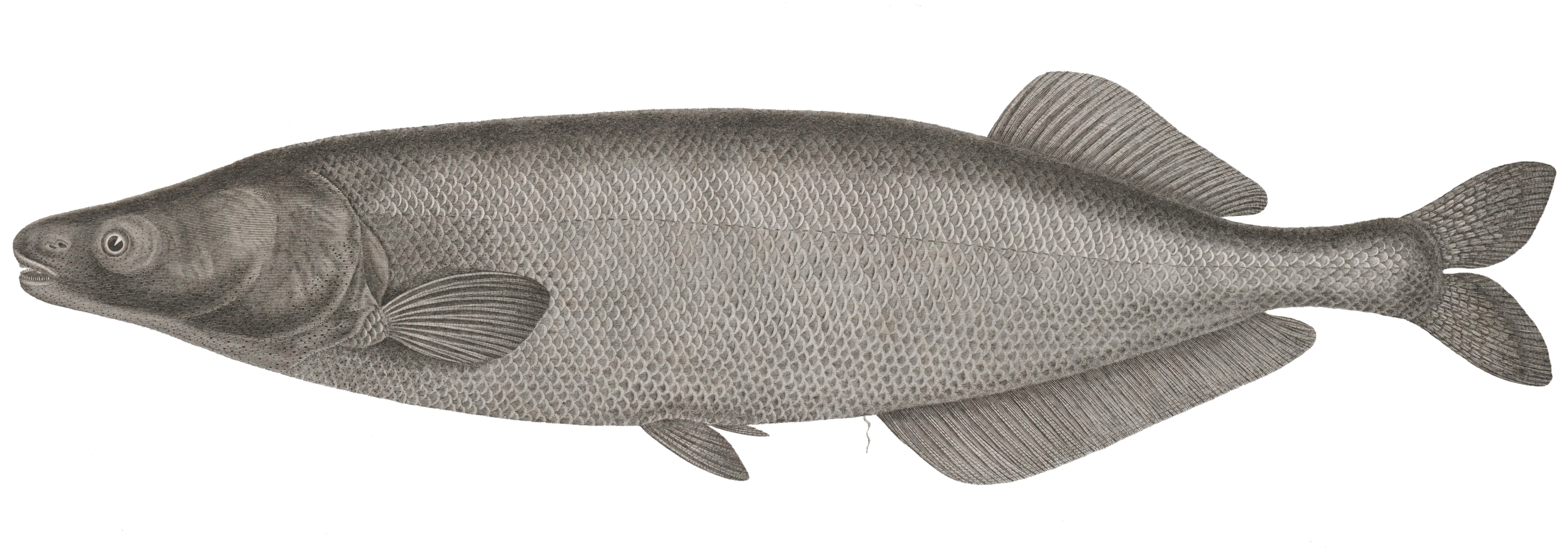 Zoologie. Poissons du Nil. 2. Le Mormyre de Dendera (Mormyrus anguilloides).